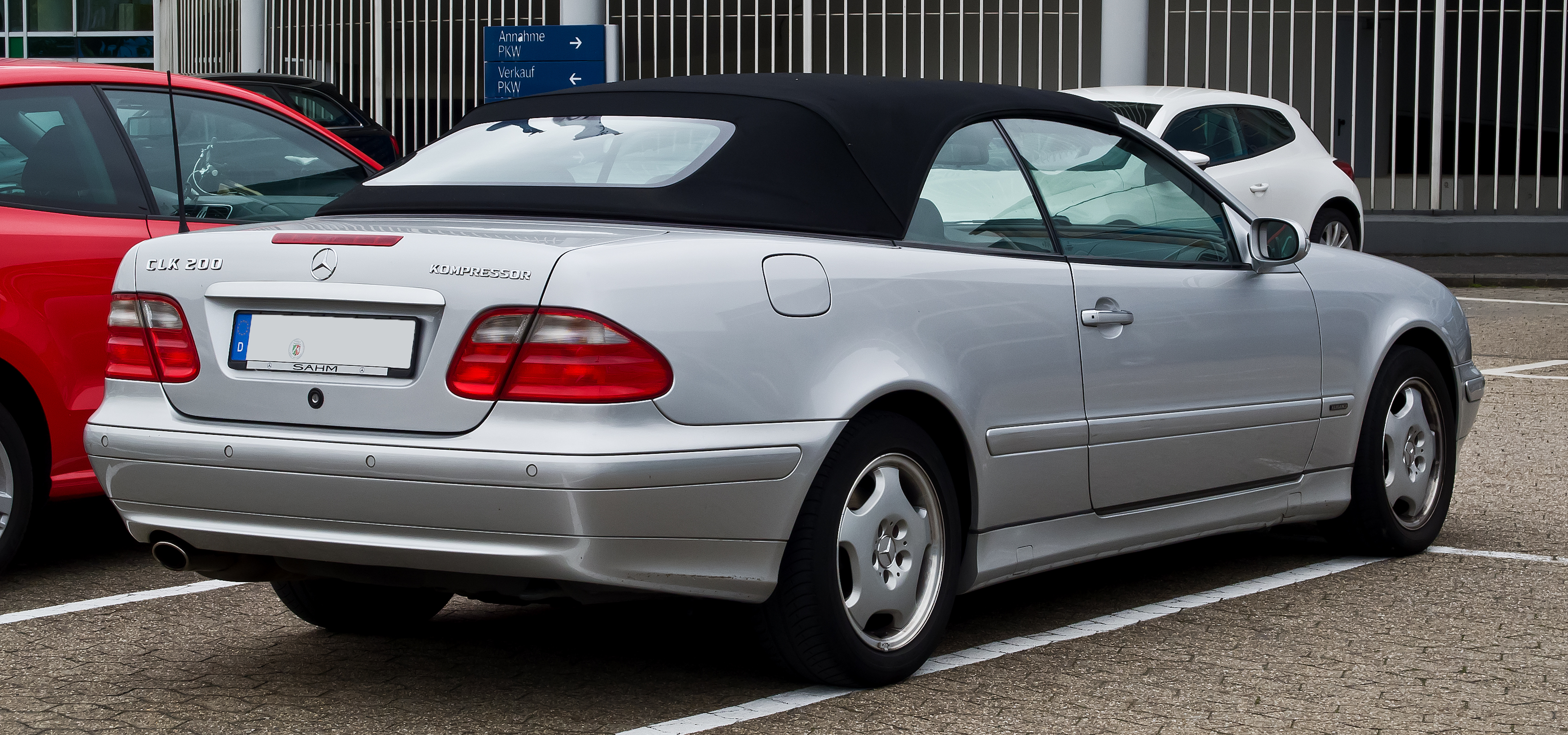 Mercedes-Benz CLK 200 Kompressor Cabriolet Elegance (A 208, Facelift)